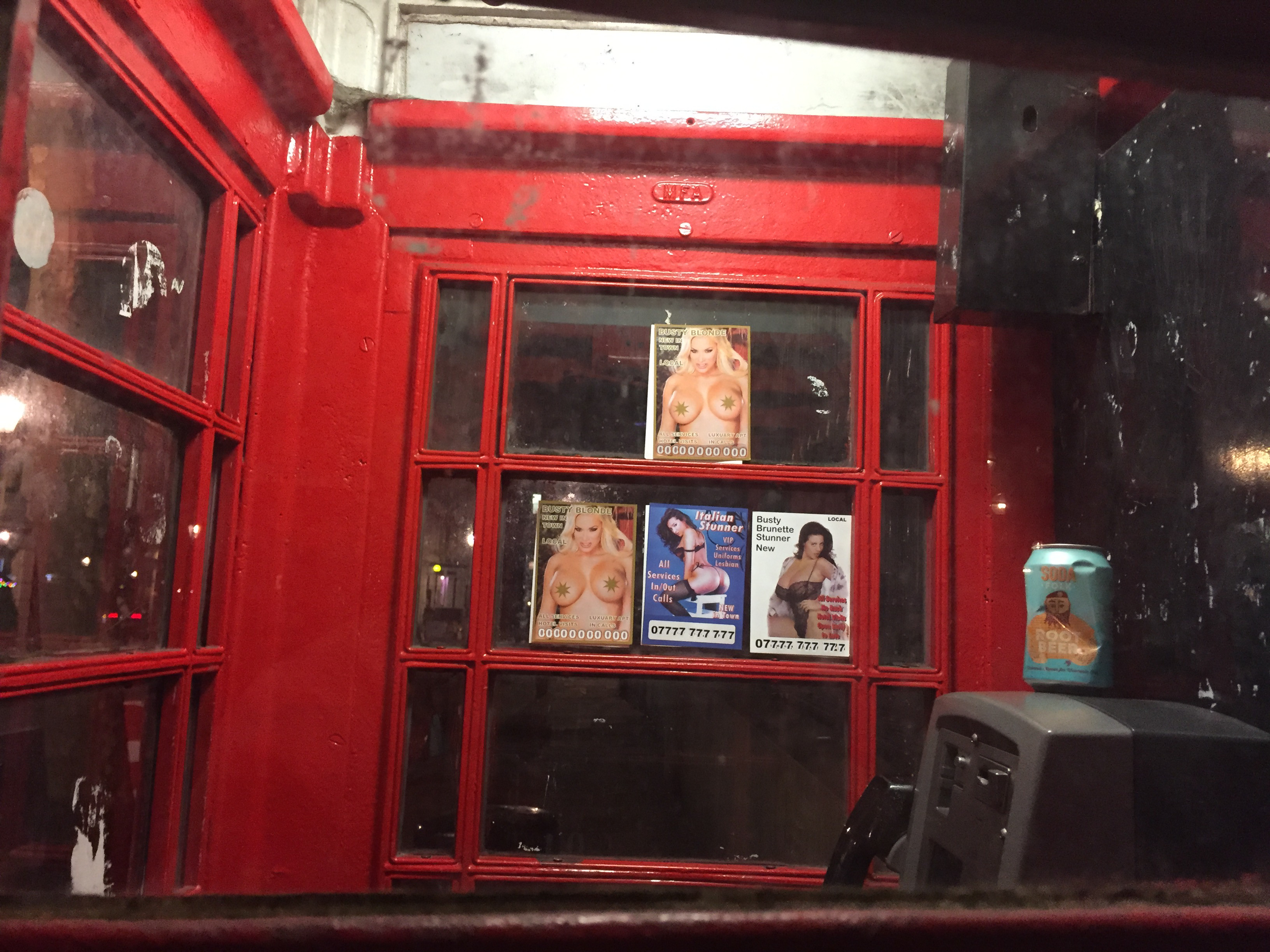 Adverts for prostitutes in a classic phone booth in front of the British Museum. January 2017